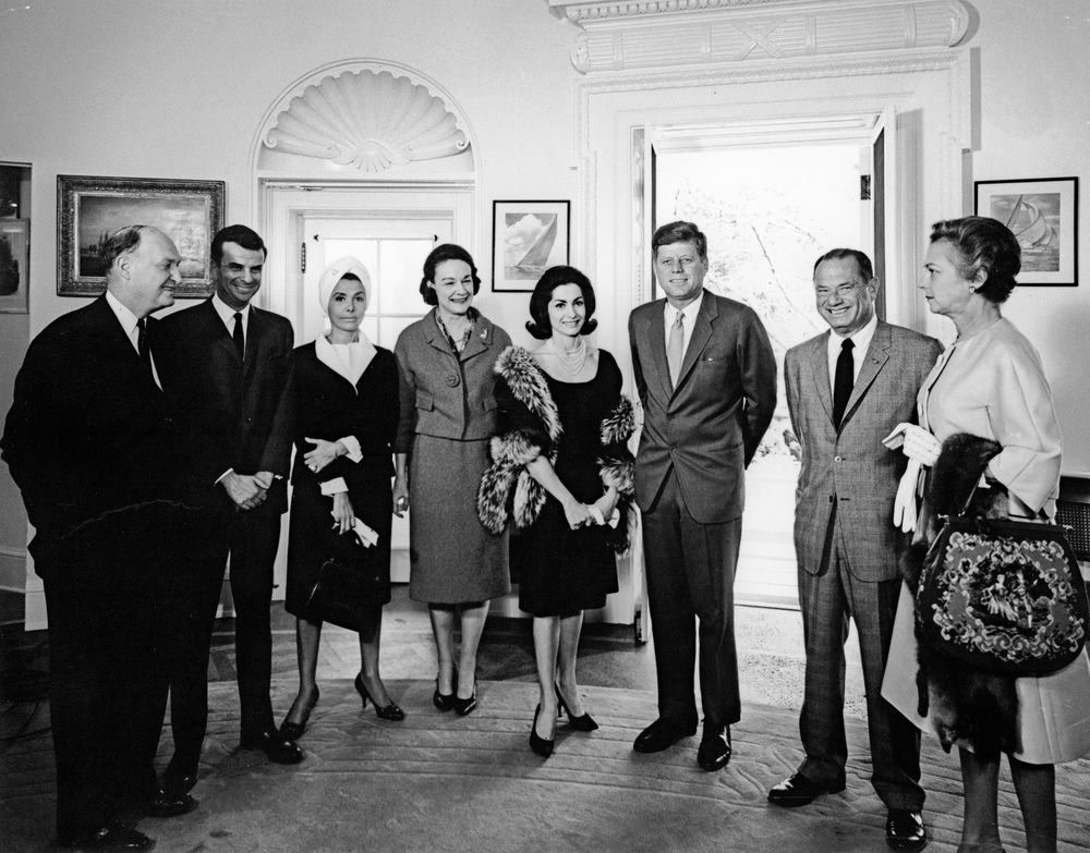 President John F. Kennedy visits with officials and entertainers participating in a fundraising event for the Democratic Party, planned for January of 1964. Left to right: Chairman of the Democratic National Committee (DNC), John M. Bailey; composer, Richard Adler; singer, actor, and civil rights activist, Lena Horne; Vice-Chairwoman of the DNC, Margaret B. Price; actor, Carol Lawrence; President Kennedy; Chairman of the Third Inaugural Anniversary Salute, Sidney Salomon, Jr.; Secretary of the DNC, Dorothy Vredenburgh Bush. Oval Office, White House, Washington, D.C.